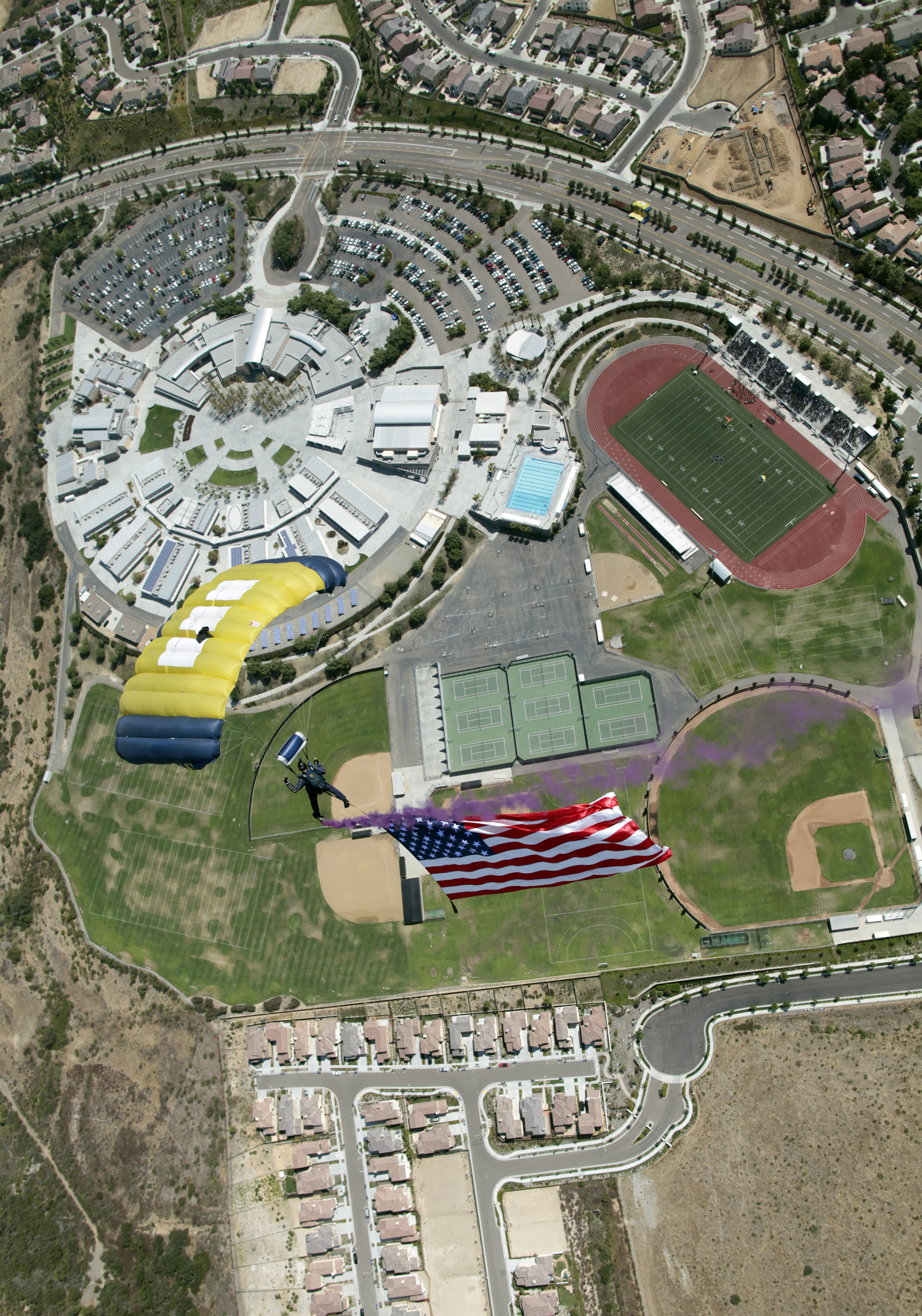 SAN DIEGO (Aug. 24, 2011) Chief Warrant Officer (SEAL) Keith Pritchett, assigned to the U.S. Navy parachute demonstration team, the Leap Frogs, flies a large American flag above Westview High School. The team performed during the pep rally. The Leap Frogs are based in San Diego and perform aerial parachute demonstrations in support of Naval Special Warfare and Navy Recruiting. (U.S. Navy photo by James Woods/Released)